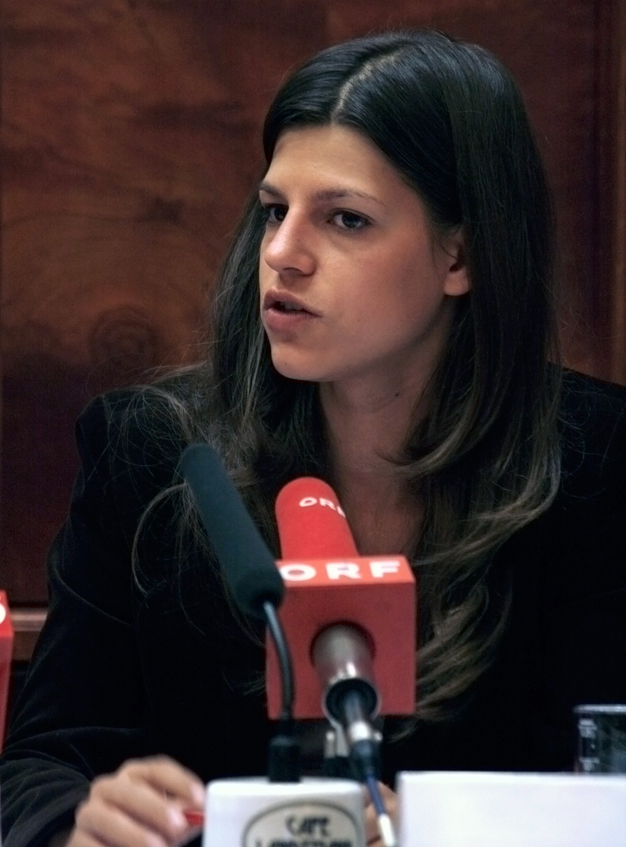 Austrian politician Laura Rudas at a press conference during the campaign for the legislative election 2008 (Café Landtmann, Vienna).